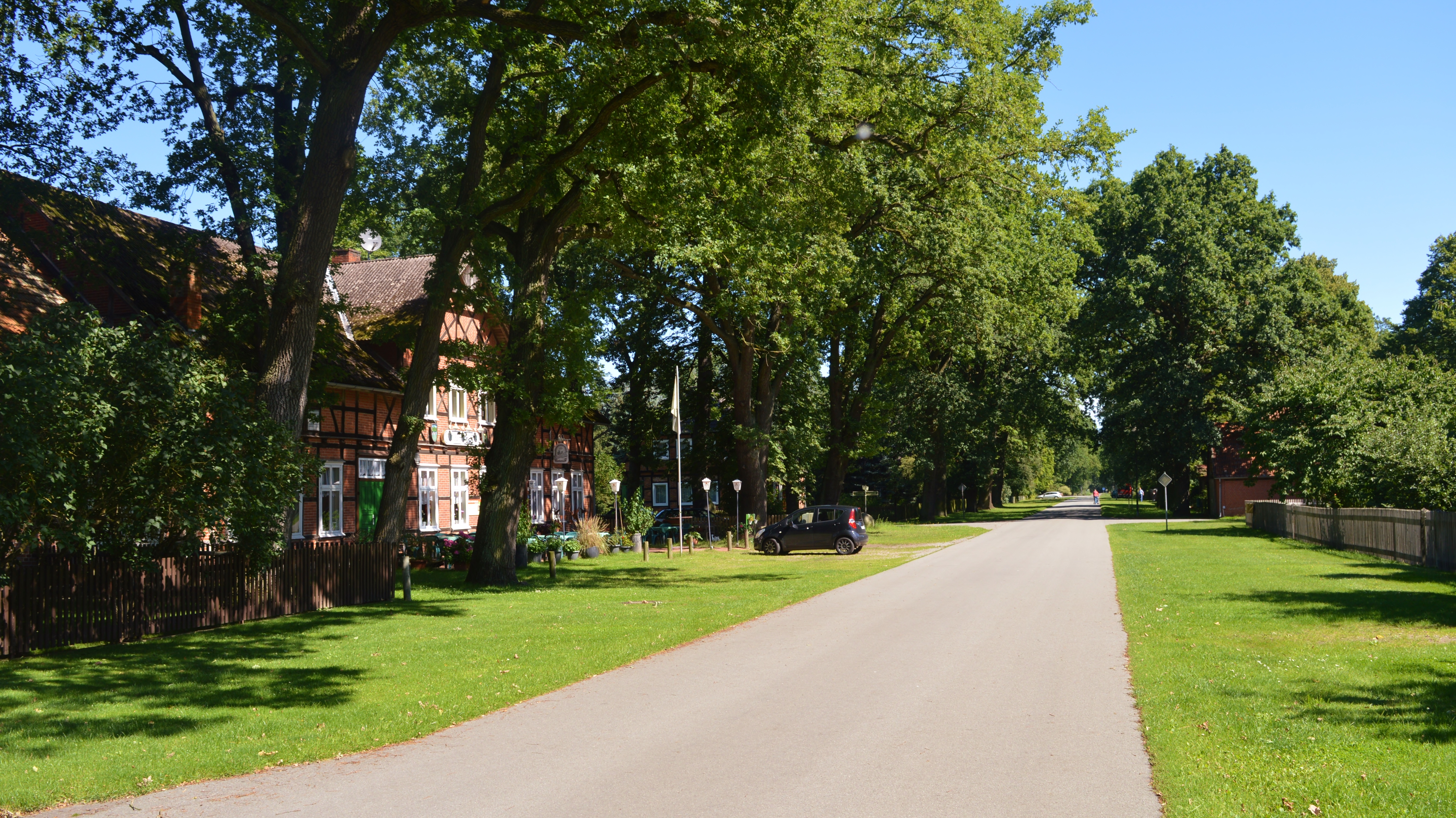 village center of Nienwalde